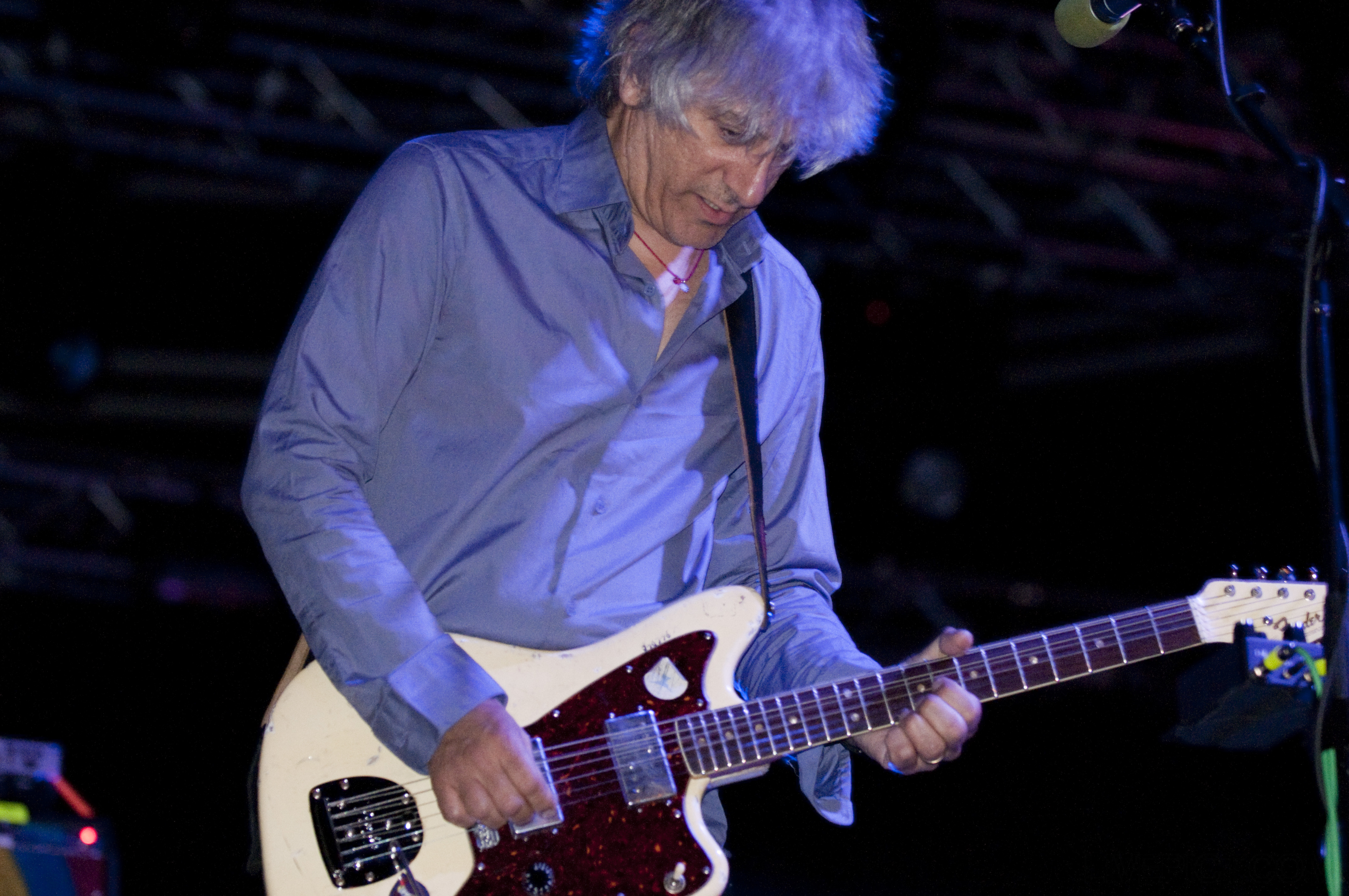 Sonic Youth